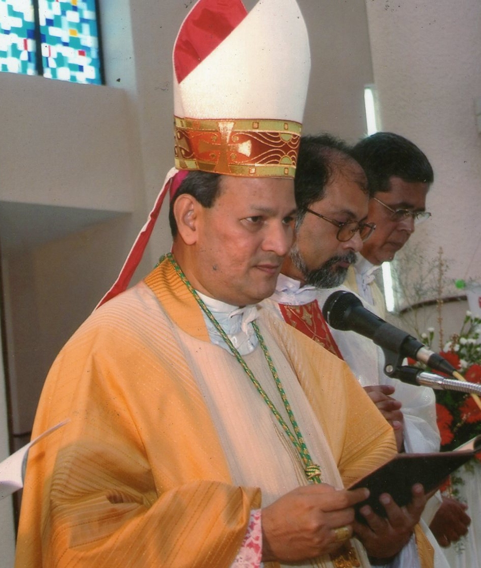 Bishop Joseph leading a mass in Calicut, Kerala